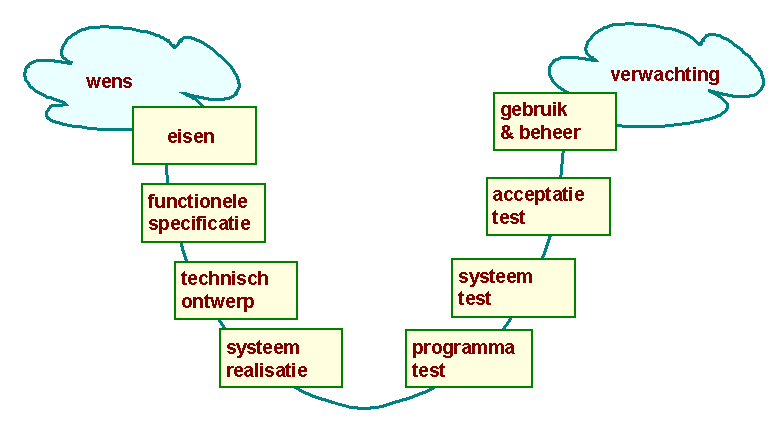 V-model, in Dutch.